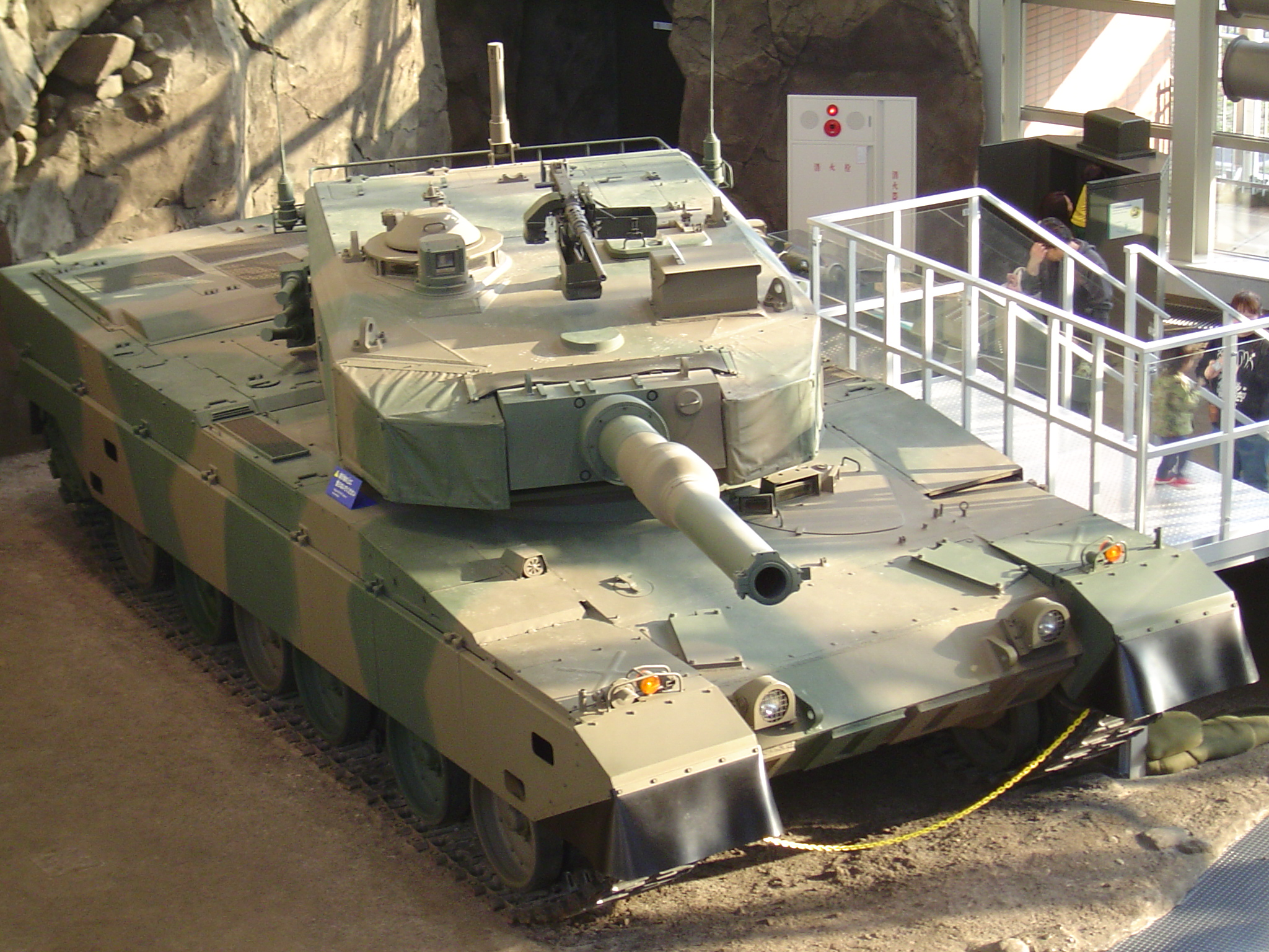 MBT Type 90 of JGSDF at JGSDF PI center. ja:90式戦車 Typ 90 (Japan) Type 90 he:Type 90 Mitsubishi Type 90 Mitsubishi Type 90 Type 90 Mitsubishi Tip 90 zh:90式戰車